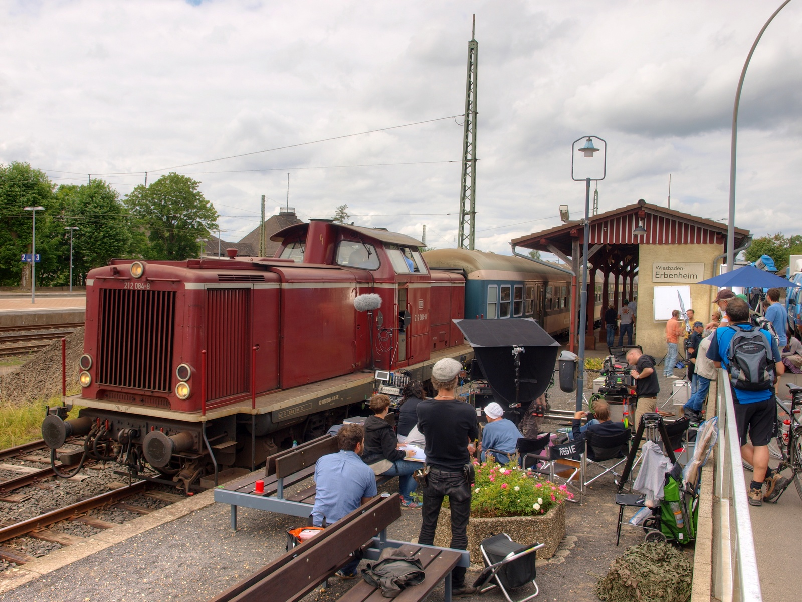 Shooting for Tatort: Im Schmerz geboren in Bad Nauheim Northern Station at the former Butzbach-Lich railway line (HDR photo). The station belongs to the heritage railway of the Eisenbahnfreunde Wetterau. The locomotive is a V 100, the carriages are owned by the Eisenbahnfreunde Treysa.